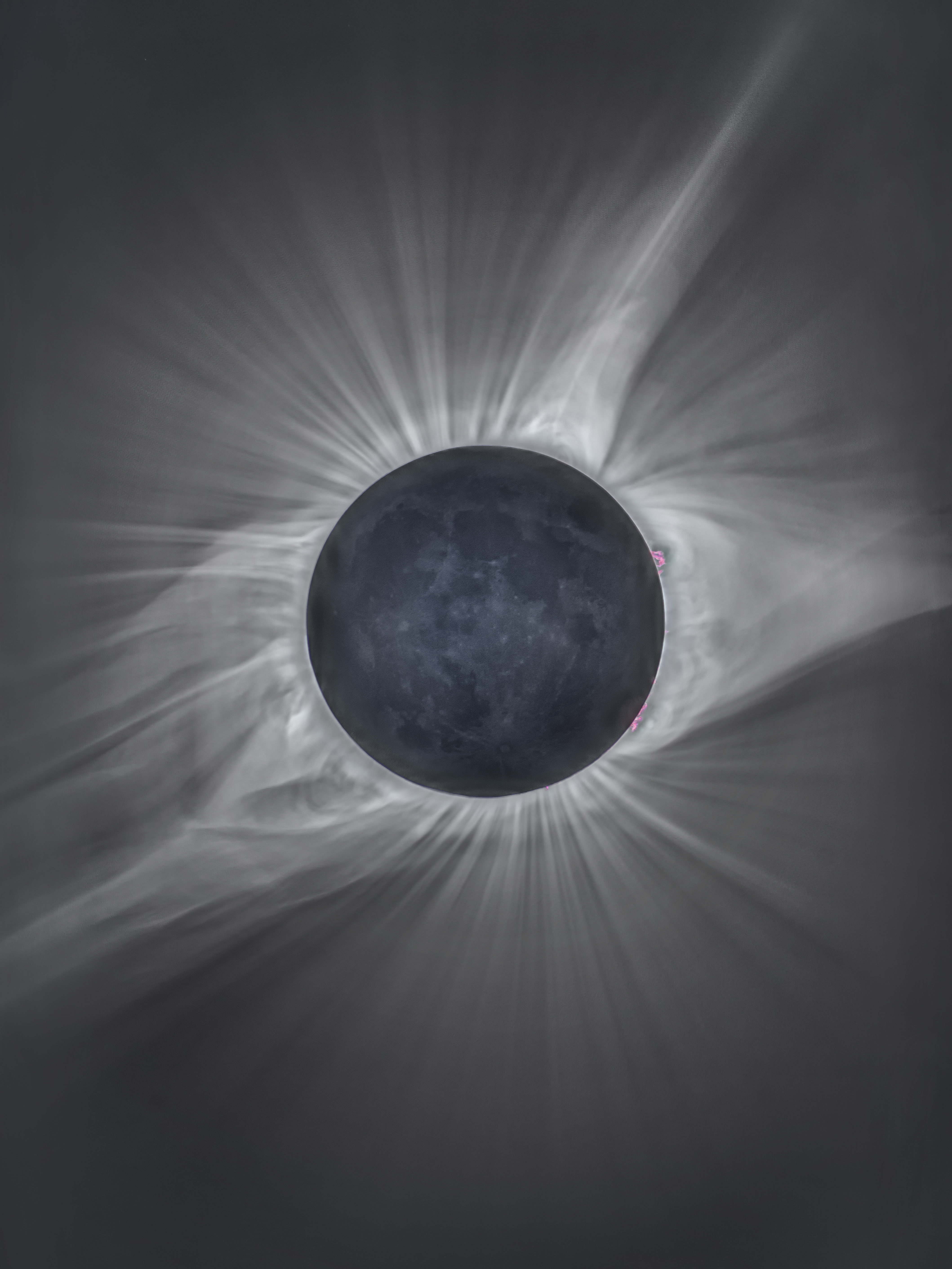 Total solar eclipse image taken through Takahashi FS152 with a f6 focal reducer and a Canon 5D MarkIV, exposure bracketing was used in seven steps from 1/2 sec to 1/8000 sec. Image was processed in Photomatix 6 and Photoshop CC 2017. In this image there is a huge range of luminosities between the corona near the sun and the earthshine illuminated moon and the only way to make such a picture is by combining the seven different images into a single image. Seven exposures spanning a 4000:1 range of exposures were taken within 2 seconds of each other on a tracking telescope with identical orientation. Such process is called high-dynamic-range imaging. The picture is a combination of 7 pictures taken from 1/8000 sec to ½ sec within 1 second. The software takes the dim part of the image from the longer exposures and the brightest parts from the shortest exposure. This image is a correction to the lead image on the web page which shows the moon illuminated by earthshine but is inverted due to an error in the post processing of the image. See the talk page. The mistake was made when combining the images using both an automated process using Photomatix and then manually in Photoshop. When adding in the ½ second image in Photoshop to capture the moon detail it was inverted it by mistake. There is no issue of the images being taken in different orientations: a link to the raw ½ second image that was used is below and it can be compared to the composite image. The correct moon orientation is clearly apparent in the ½ second image.